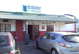 Front of Radio Helderberg